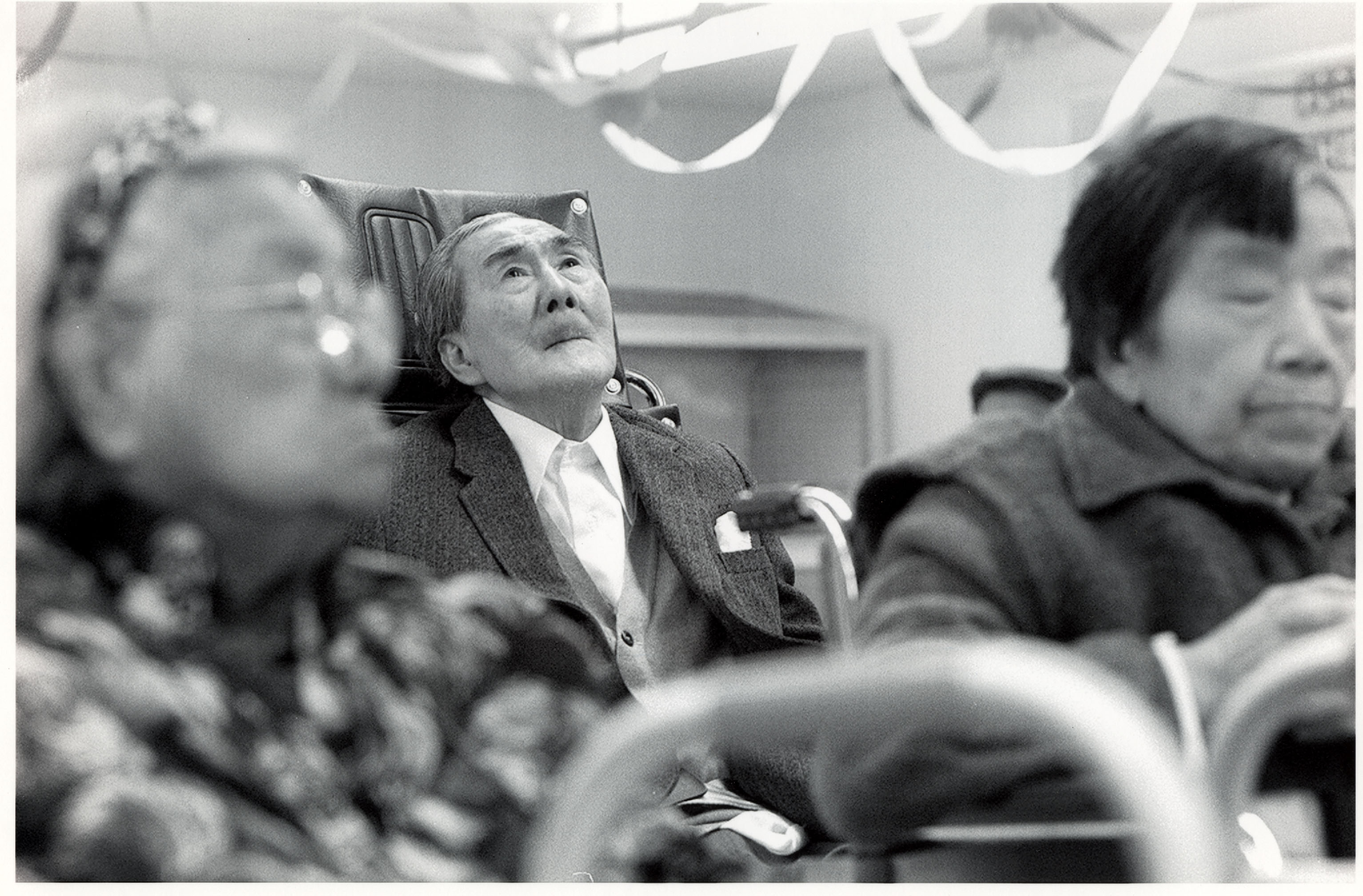 A senior at San Francisco's On Lok Senior Health Services in the 1970s participating in day care program